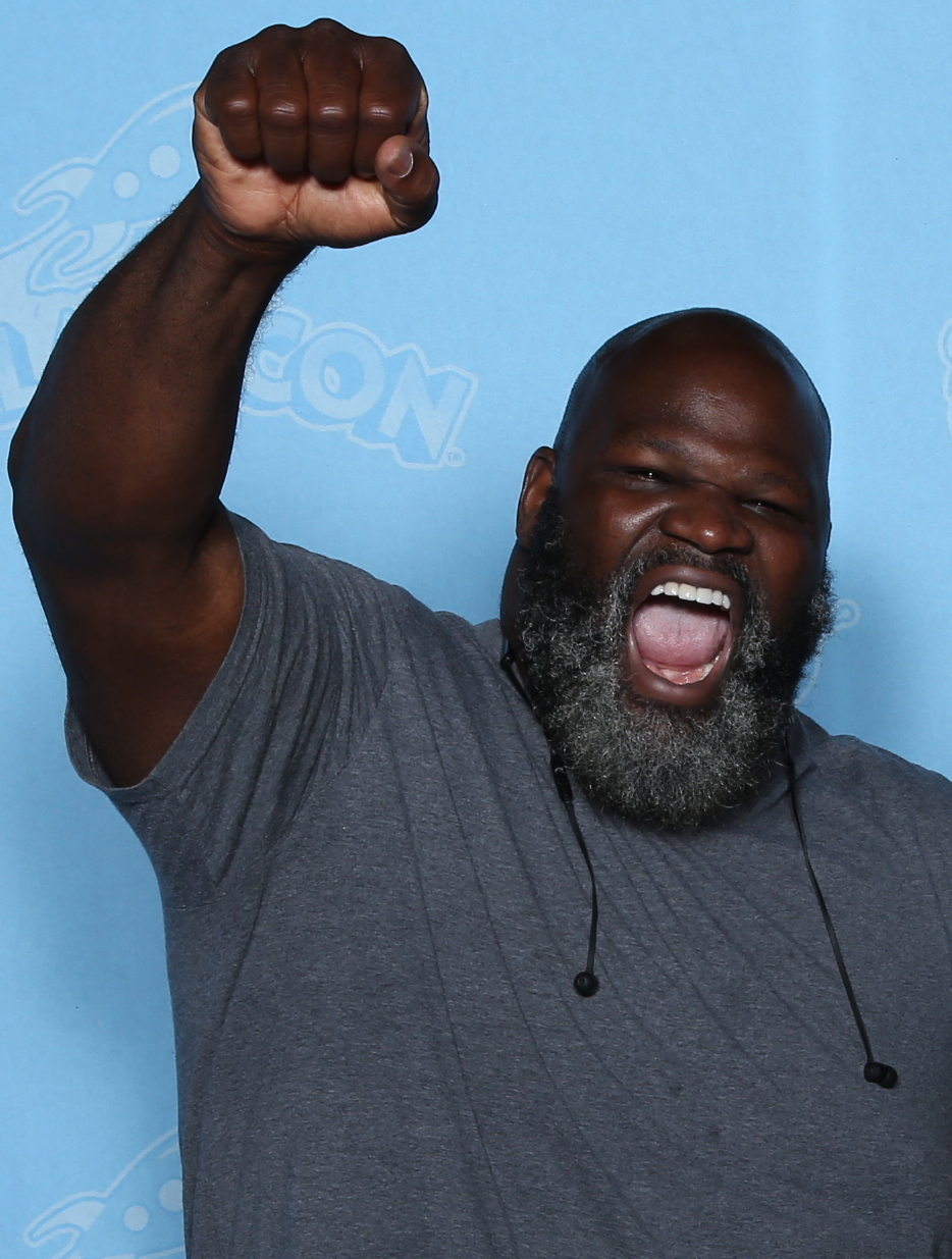 Mark Henry at GalaxyCon Richmond in 2019